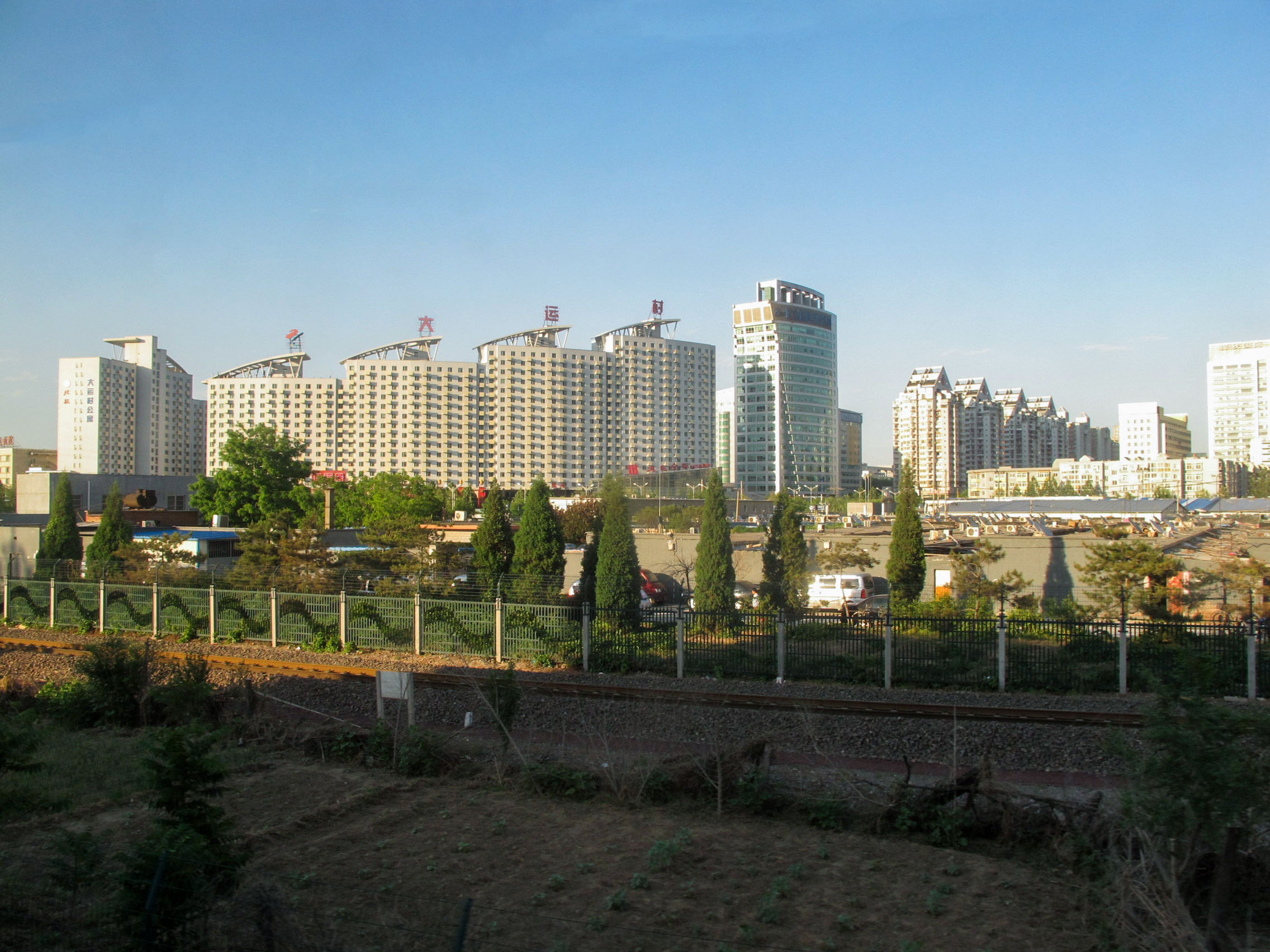 大運村, Haidian District